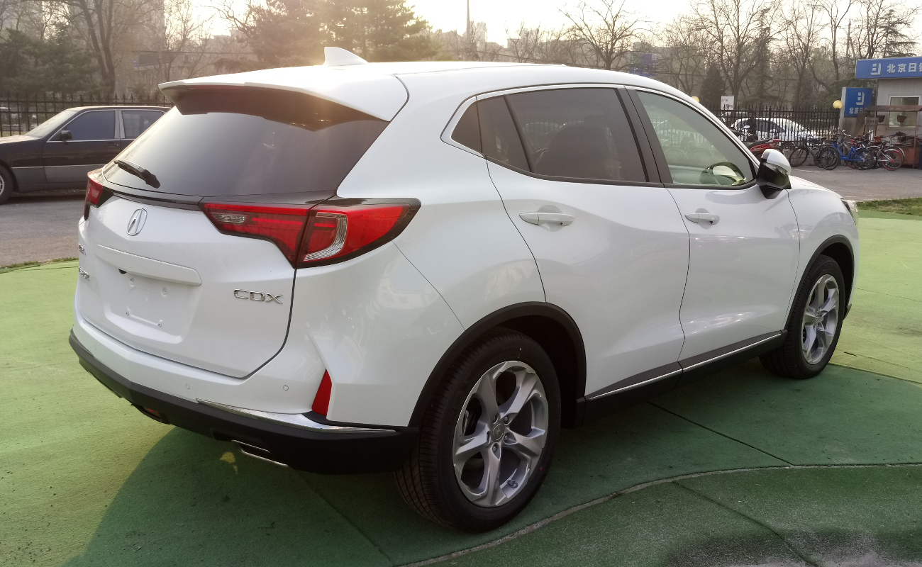 Acura CDX photographed in Beijing, China.